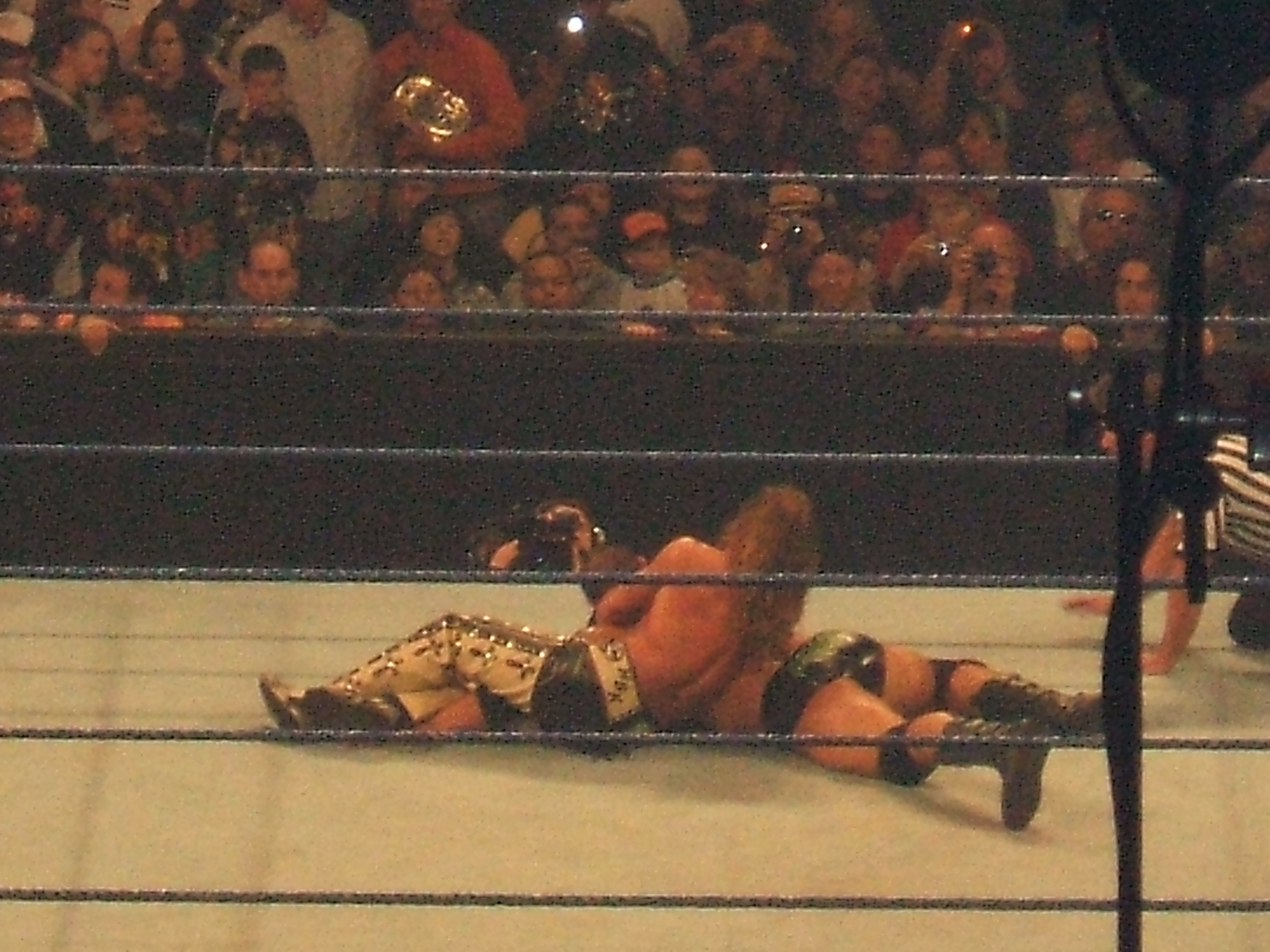 Shawn Michaels places Batista in a crossface at Backlash. Taken with a Kodak FinePix A500 on April 27th 2008.